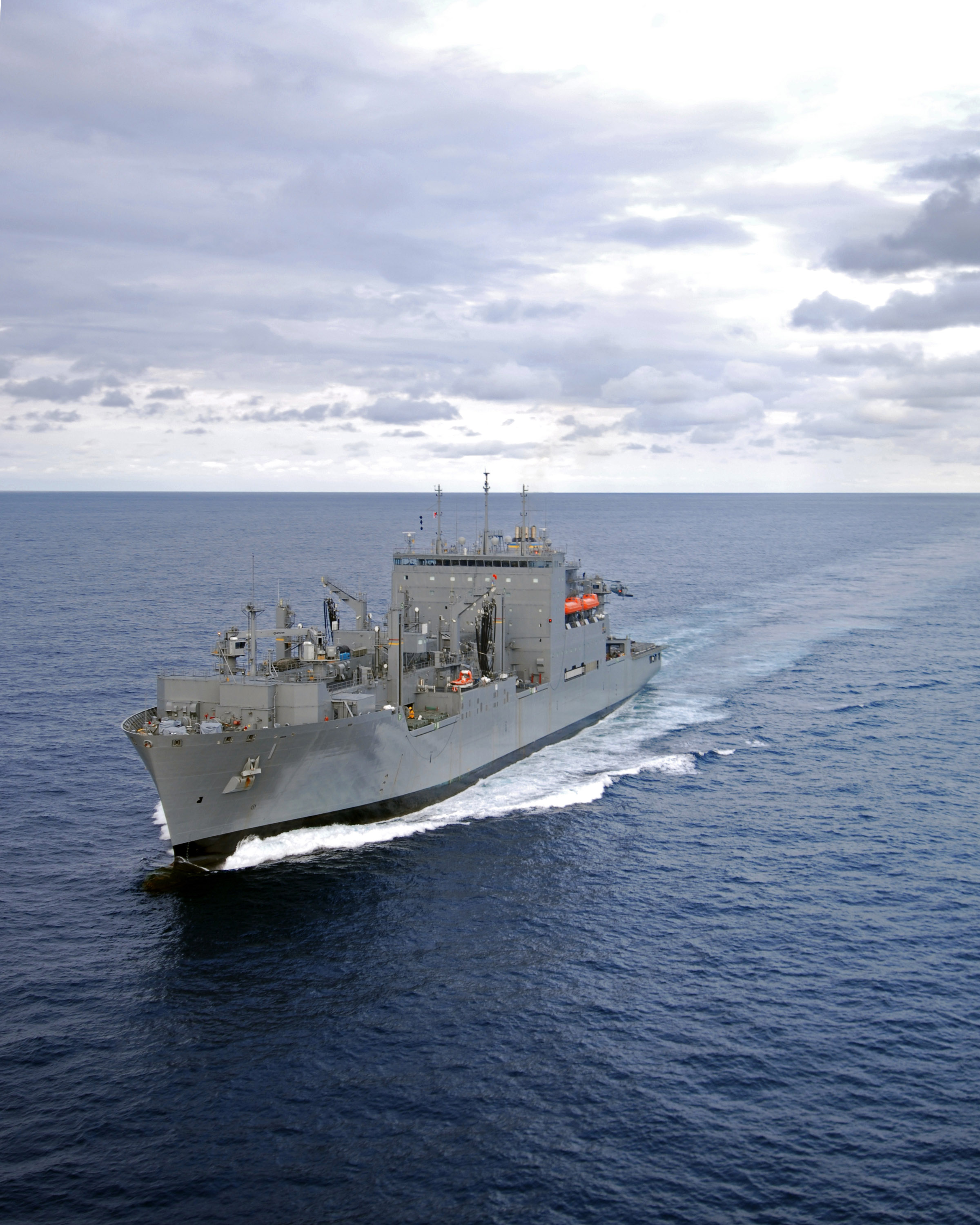 Atlantic Ocean (Dec. 14, 2006) — The Military Sealift Command (MSC) dry cargo/ammunition ship USNS Lewis and Clark (T-AKE-1) conducts a vertical replenishment with USS Theodore Roosevelt (CVN-71) in the Atlantic Ocean.